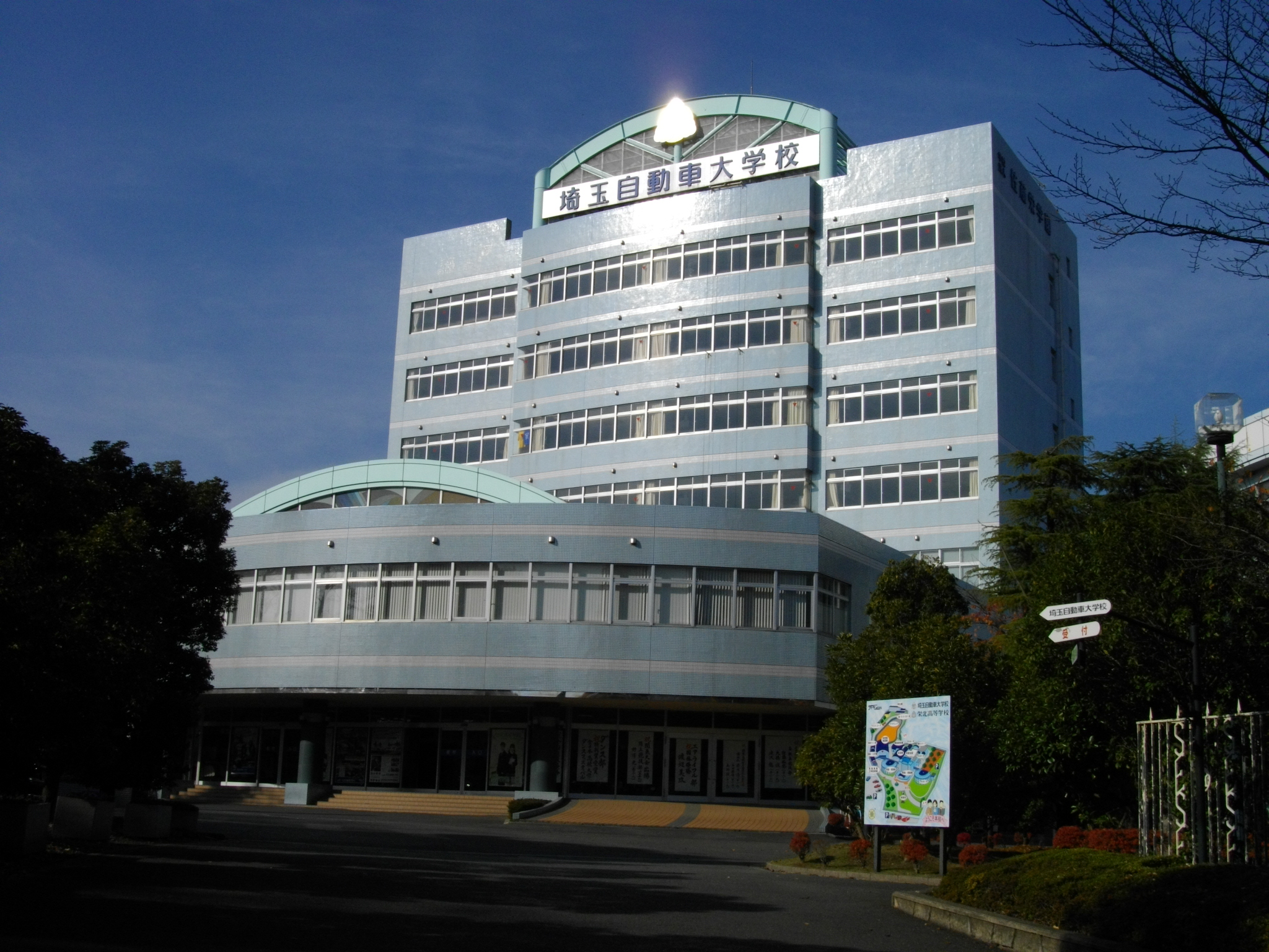 Saitama Institute of Automotive Technology